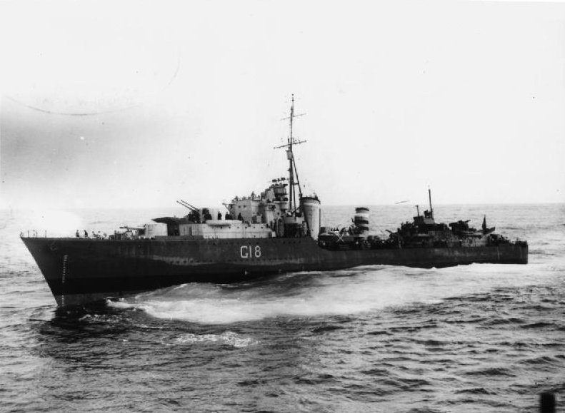 HMS Zulu Underway.